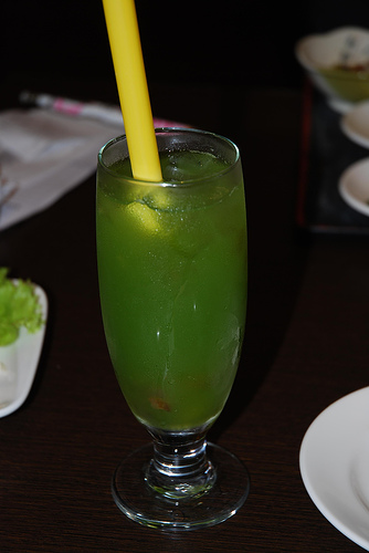 A beverage prepared using a part or parts of the ocean sunfish, Mola mola